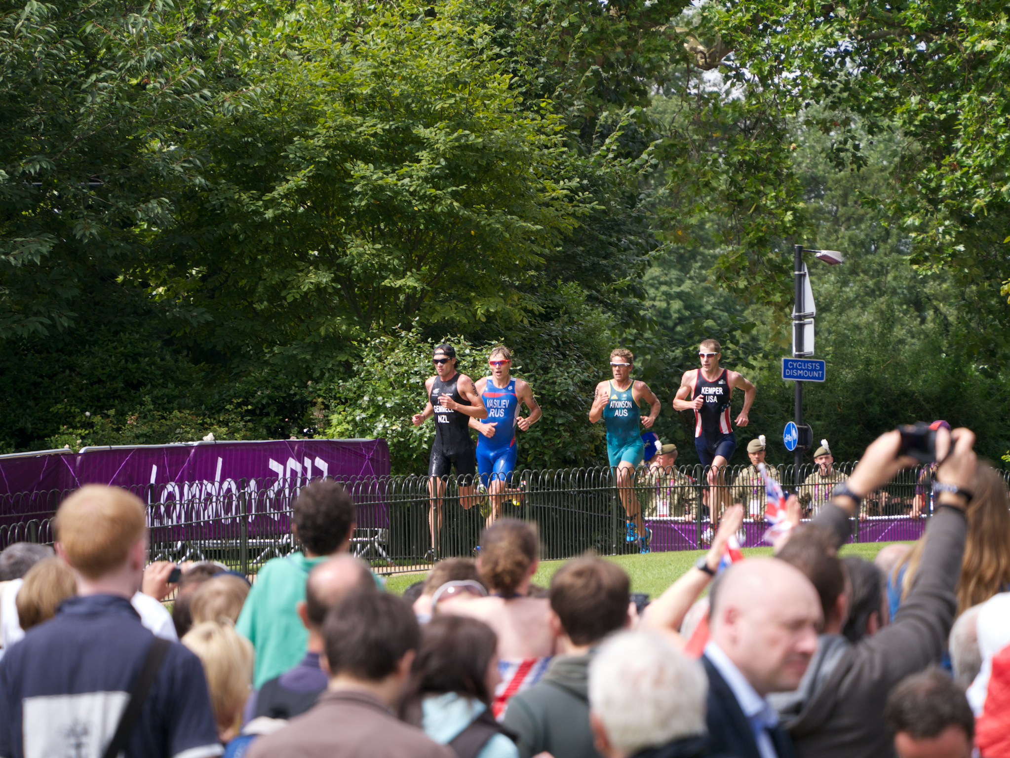 Kris Gemmell (New Zealand, no. 55), Ivan Vasiliev (Russia, 27), Courtney Atkinson (Australia, 39) with Hunter Kemper (USA, 43) on a charge - he overtook Gemmell and Atkinson by the end.